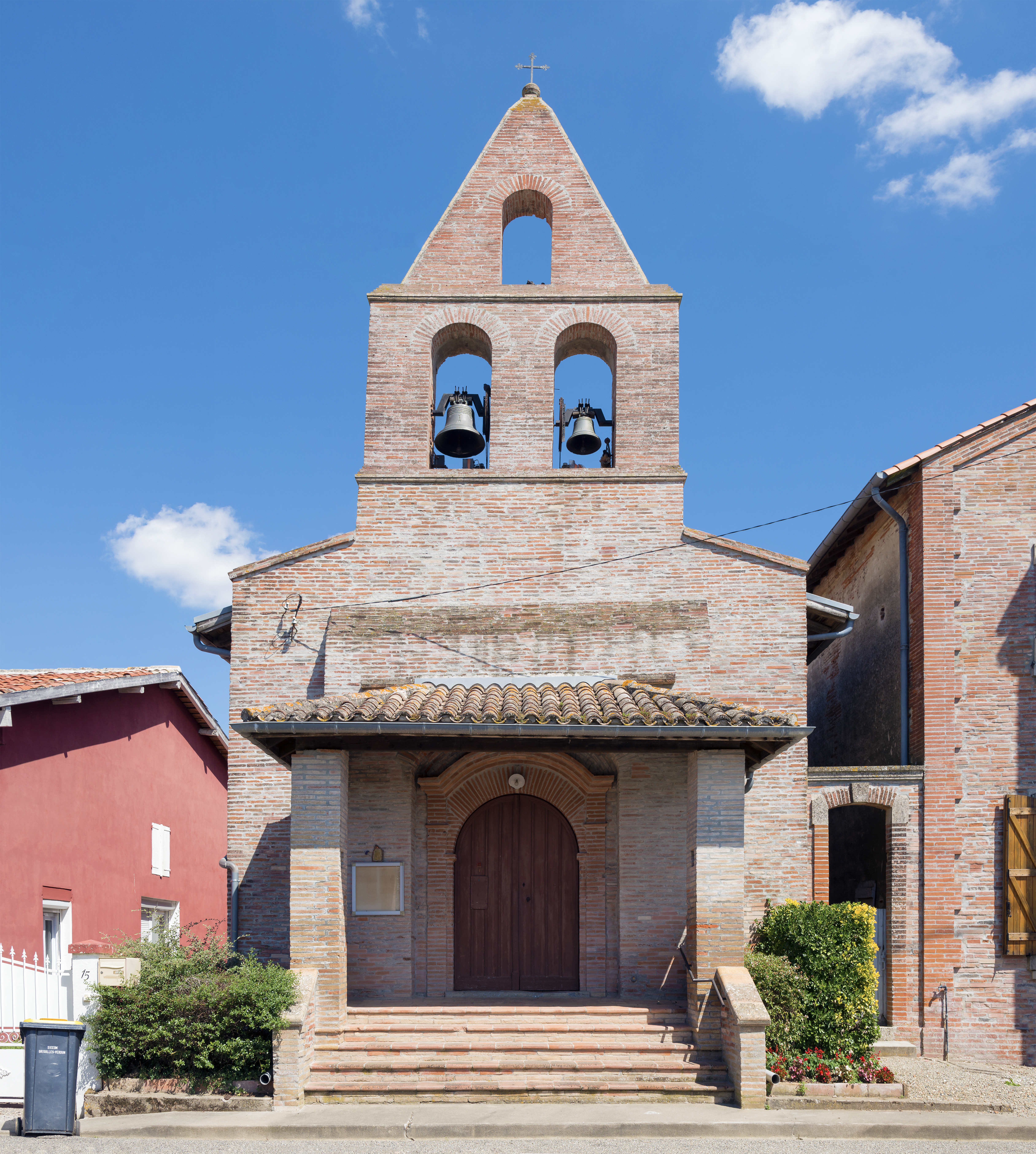 Fabas, Tarn-et-Garonne, church and bell-gable.